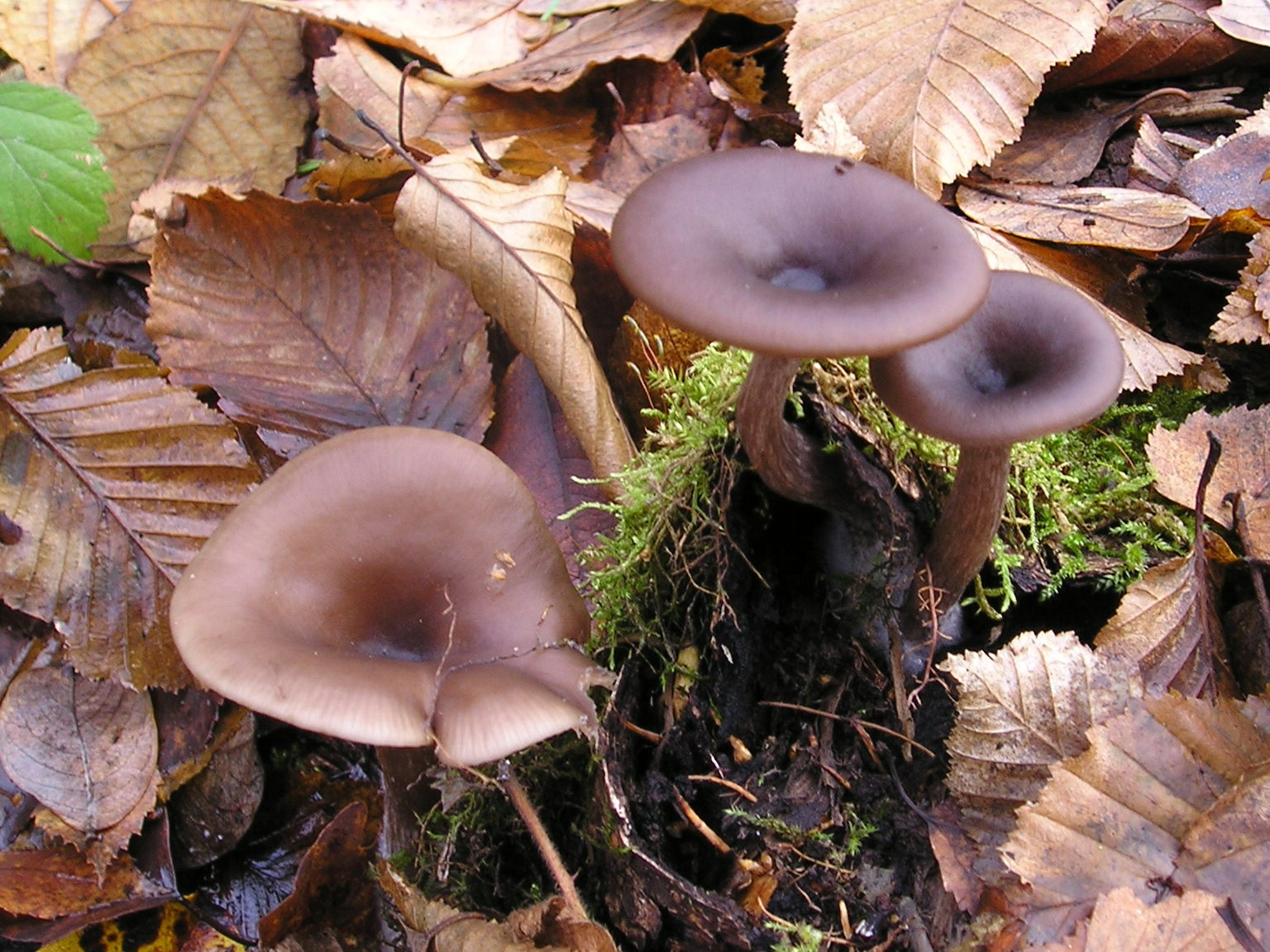 Pseudoclitocybe cyathiformis in a French wood.